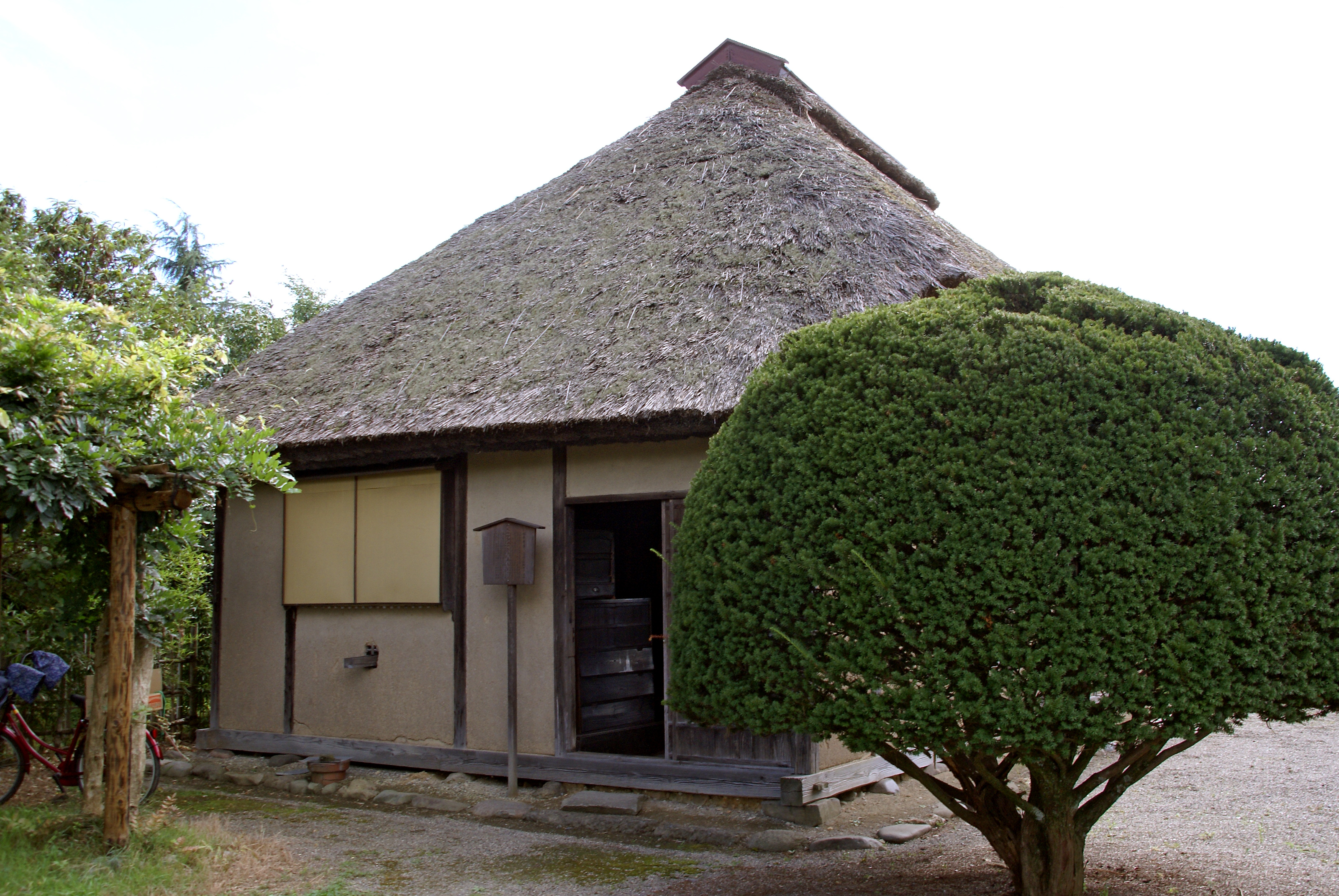 Doshin-yashikis in Hanamaki, Iwate prefecture, Japan